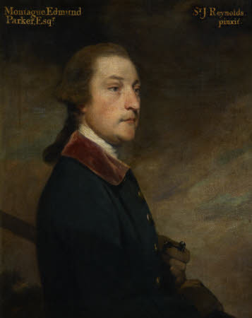 Montagu Edmund Parker (1737-1831) of Whiteway House, Chudleigh, Devon, Sheriff of Devon in 1789, younger brother of John Parker, 1st Baron Boringdon (1735-1788) of Saltram House, Plympton, Devon, whose son was John Parker, 1st Earl of Morley (1772-1840). 1768 portrait by Sir Joshua Reynolds (1723-1792), who was born in Plympton and painted many pictures for his friends the Parker family of Saltram. Collection of National Trust, NT 872086, displayed at Saltram House. Provenance: Accepted by HM Treasury in part payment of death-duties from the executors of Edmund Robert Parker, 4th Earl of Morley (1877–1951) and transferred to the National Trust in 1957.